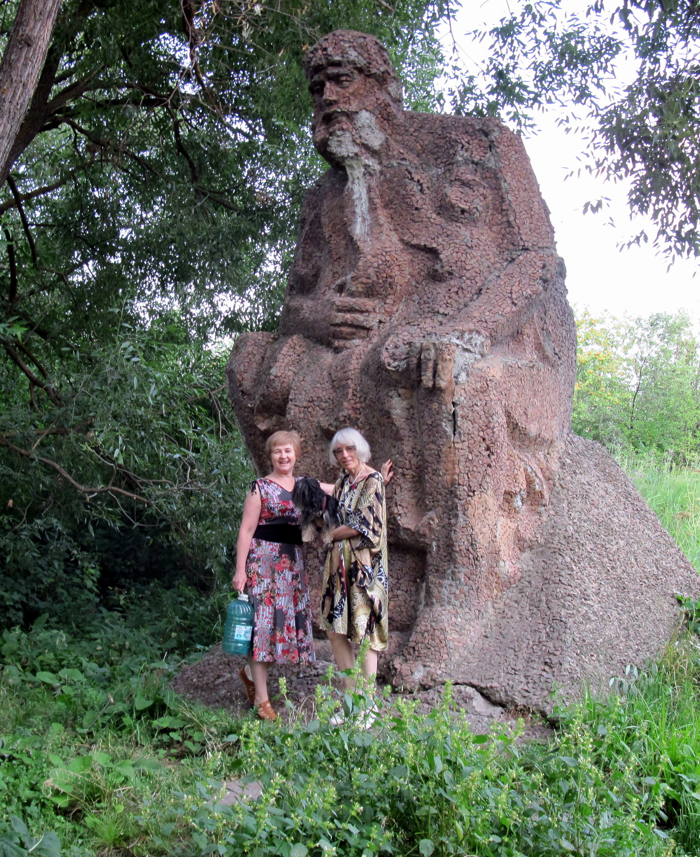 Oldman Hopyor